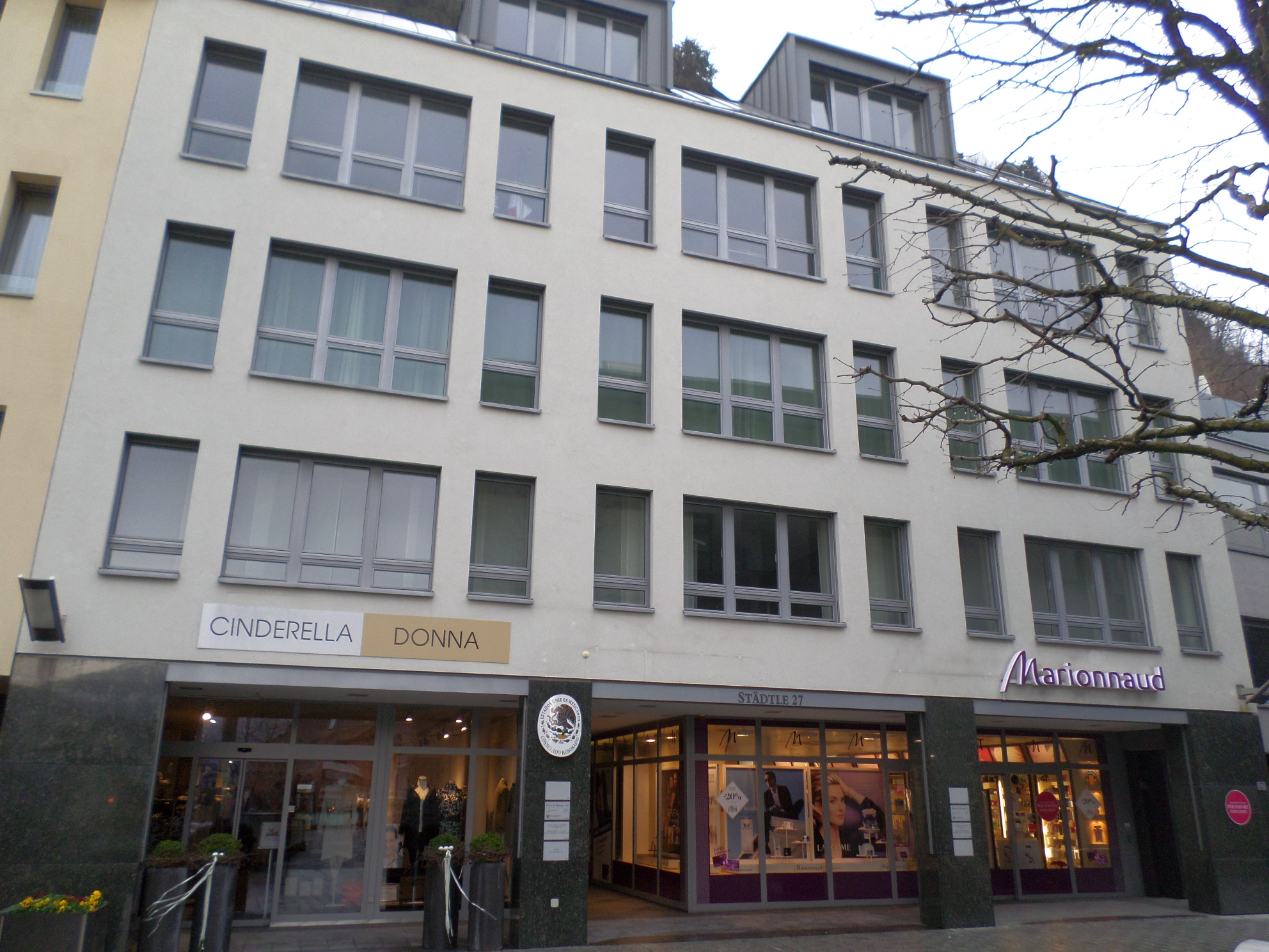 Städtle 27, 9490 Vaduz, Liechtenstein (Building that houses the Honorary Consulate of Mexico)